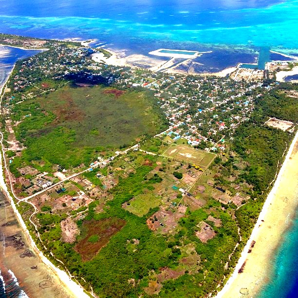 Meedhoo (Dhivehi: މީދޫ) is the oldest populated island in Adducity in the Republic of Maldives, having been settled between 1000 and 500 BCE. Its name comes from the original Indo-Aryan settlers; Meedhoo means Big Island in Sanskrit.Meedhoo is located in the northernmost tip of Addu Atoll. The original settlers were Divehi people of ariyan origin. Arab traveller by the name of Yoosuf Naib planted the seed of Islam and built a place to worship Allah in the 12th century.In this island where the first mosque was built in the country to worship Allah, has ever since known as a centre of learning and Islamic religious education. Meedhoo is one of the largest islands in the Maldives. It is famous for the scholars it has produced. Since the sixteenth century eight natives of Meedhoo have served as Fandiyaaru, or Qazi, at Malé. To this day, Meedhoo Ulamma and other noted ecclesiastics hold their own with those of the capital. The oldest cemetery in Maldives Kōgaṇṇu is located in Meedhoo. Despite its distance from the capital Male' and comparatively small size in population, Meedhoo has ever maintained an importance in Maldivian affairs out of all proportions.